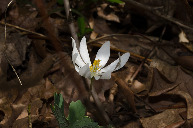 An early spring flower with showy, large blooms and interesting foliage. Usually found growing on slopes in rich forests, sometimes along Sourlands roadsides near forest. Pollinated by native bees and flies, seeds dispersed by forest ants.